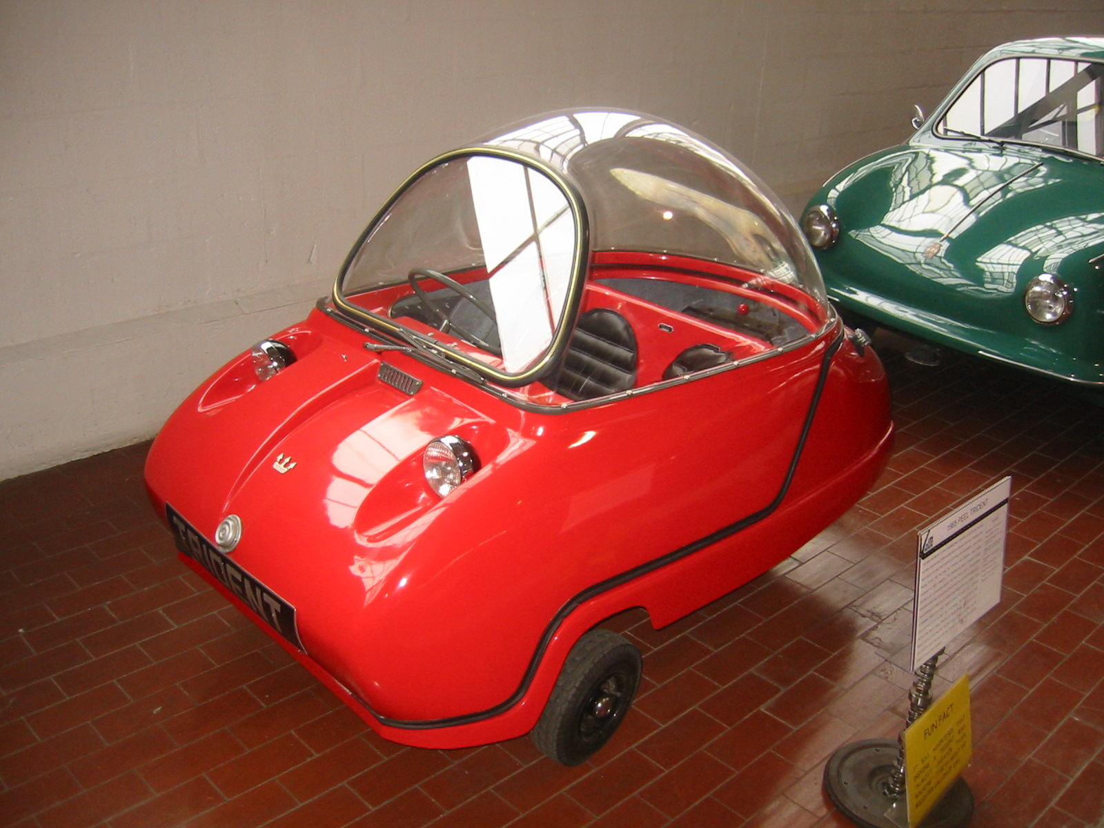 American Automobile Culture: Cars from the Lane Motor Museum 1965 Peel Trident at the Lane Motor Museum in Nashville, Tennessee (USA) automobile, car, lane motor museum, museum, nashville, tennessee, usa, micro car, microcar, tiny, small, isle of man, fiberglass